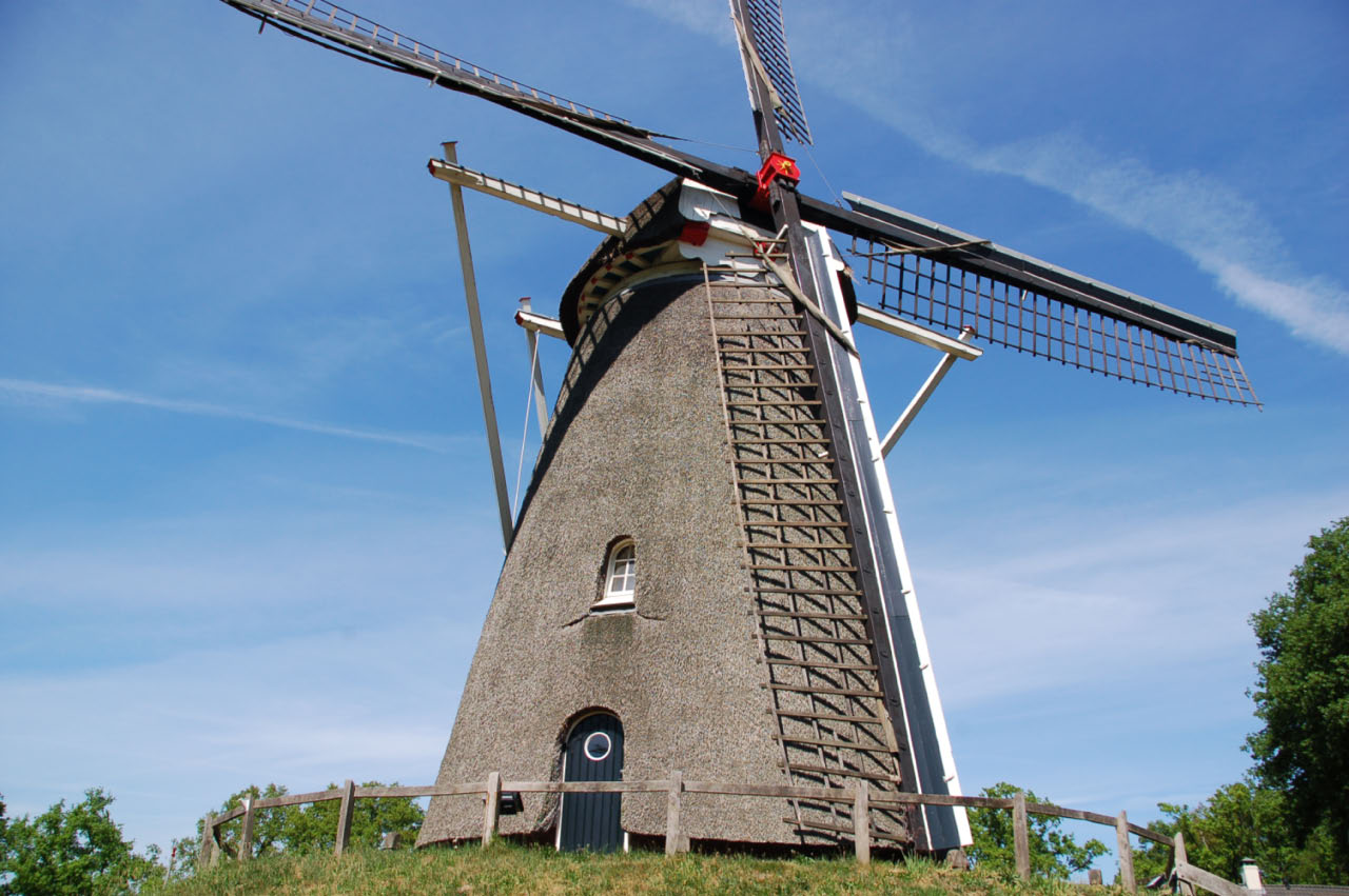 Front of Lonneker Molen, mill in Lonneker (Municipality of Enschede)